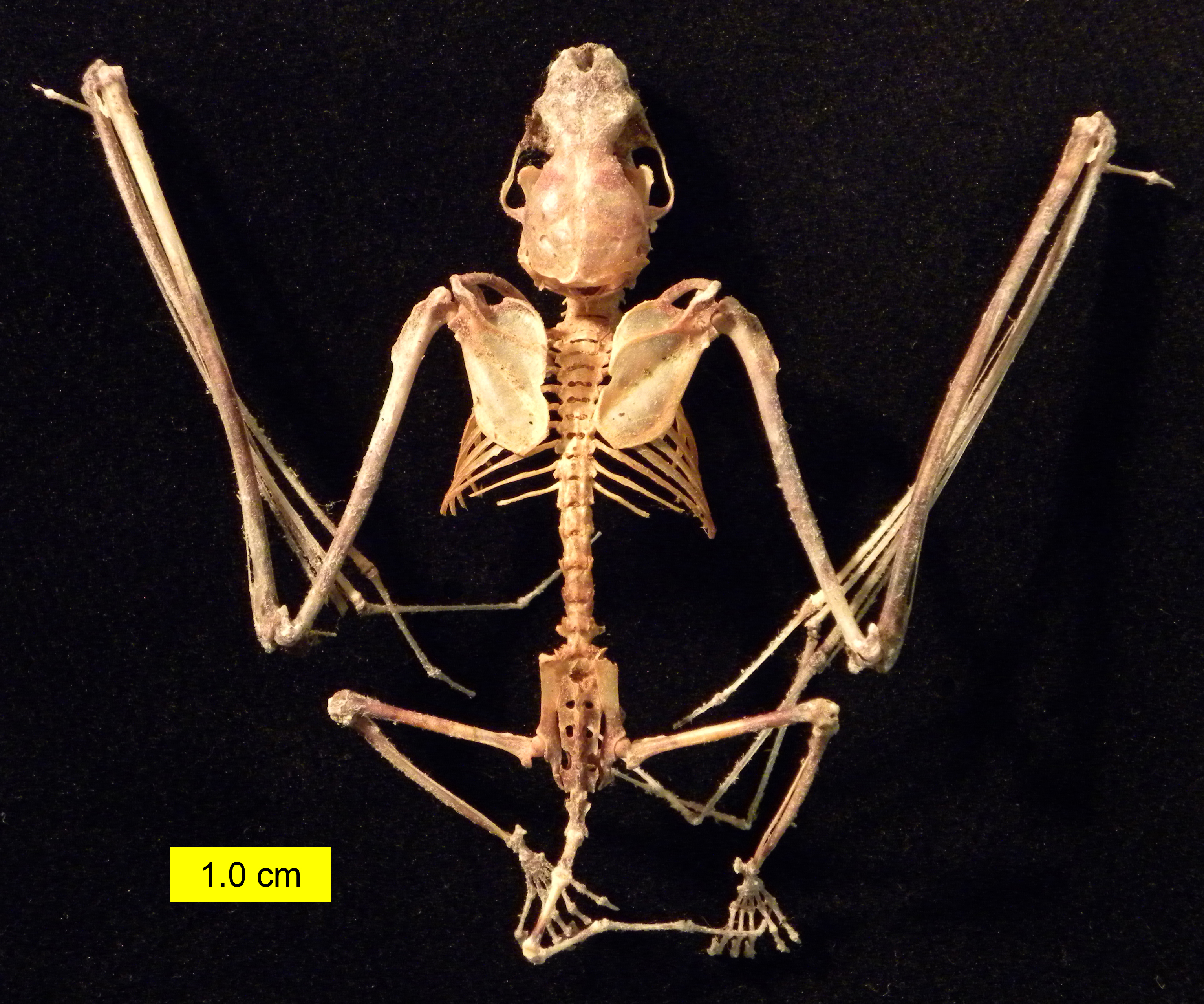 Skeleton of a Big Brown Bat (Eptesicus fuscus) found in Wooster, Ohio, USA.